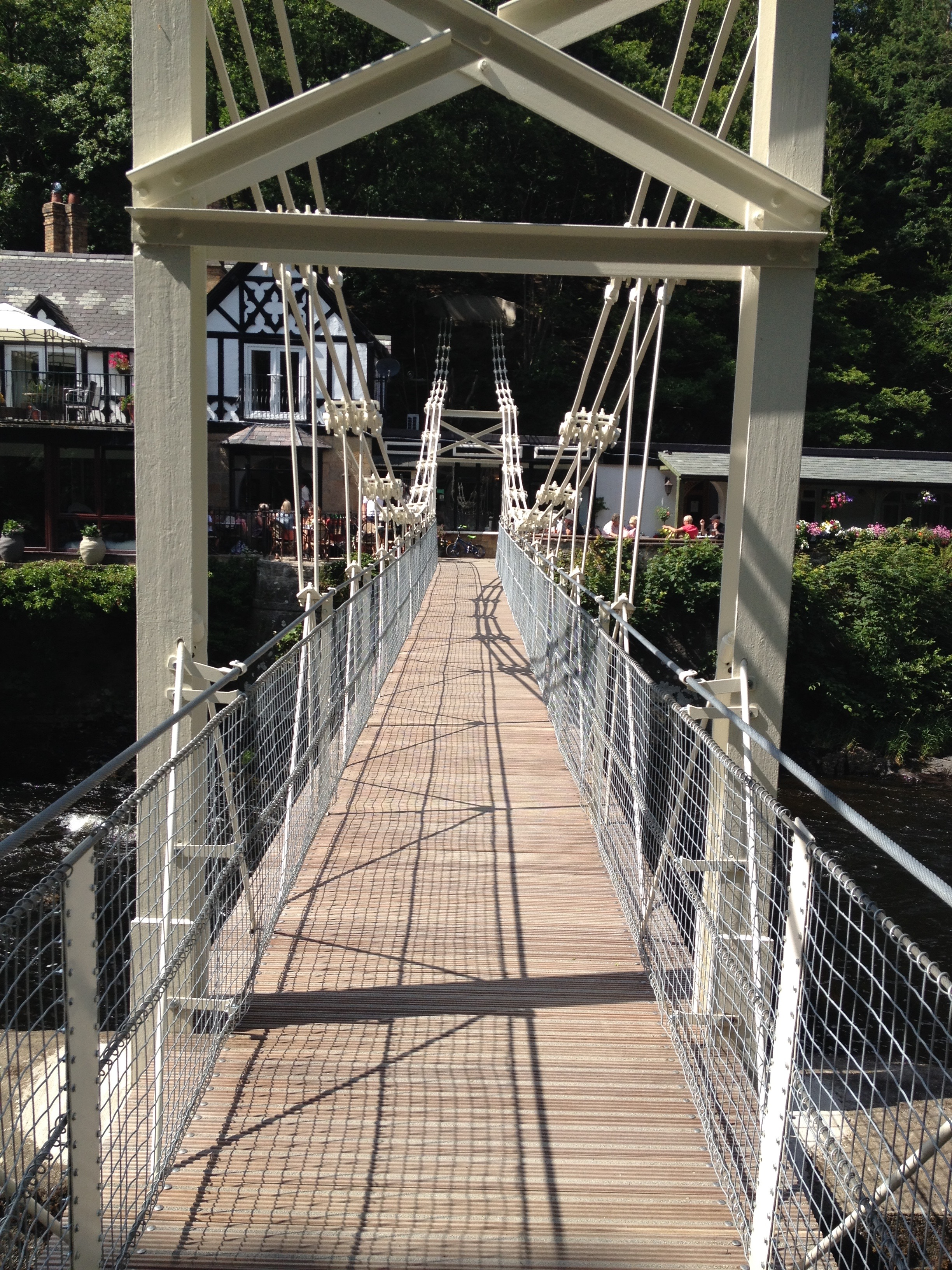 Looking across river Dee and Chain Bridge Hotel